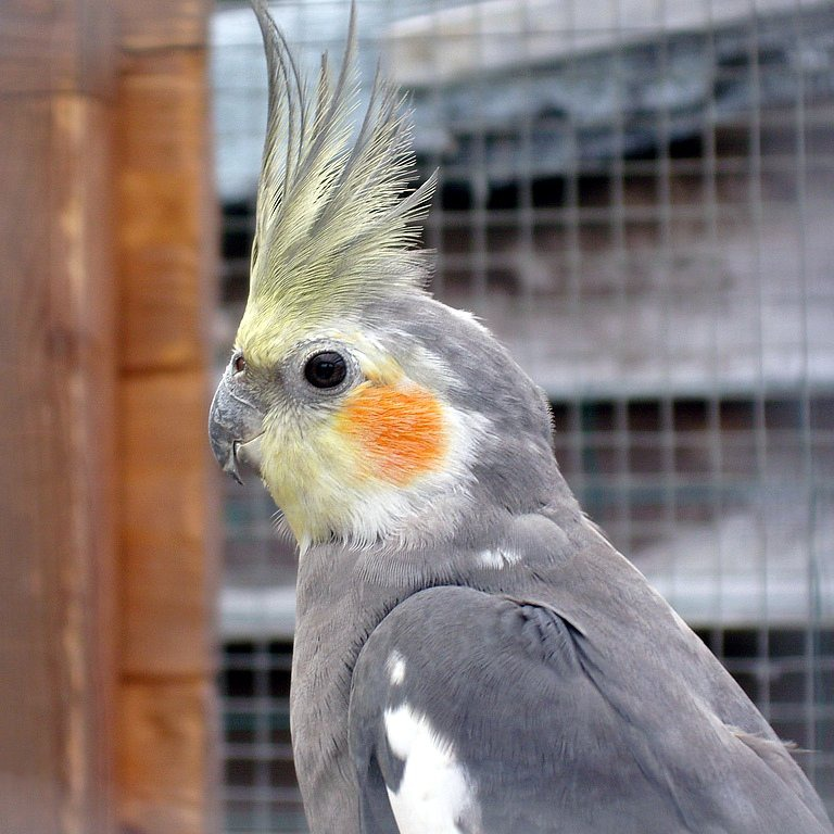 Cockatiel in an aviary.